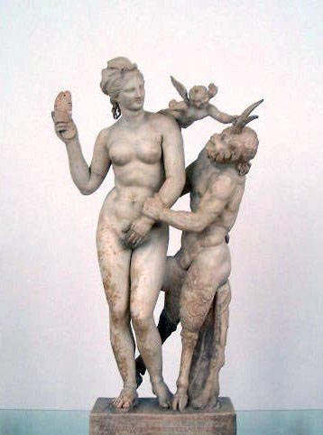 Aphrodite and Eros fighting off the advances of Pan. Marble, hellenistic artwork from the late 2nd century BC. From the site of the Poseidoniasts of Berytos in Delos.